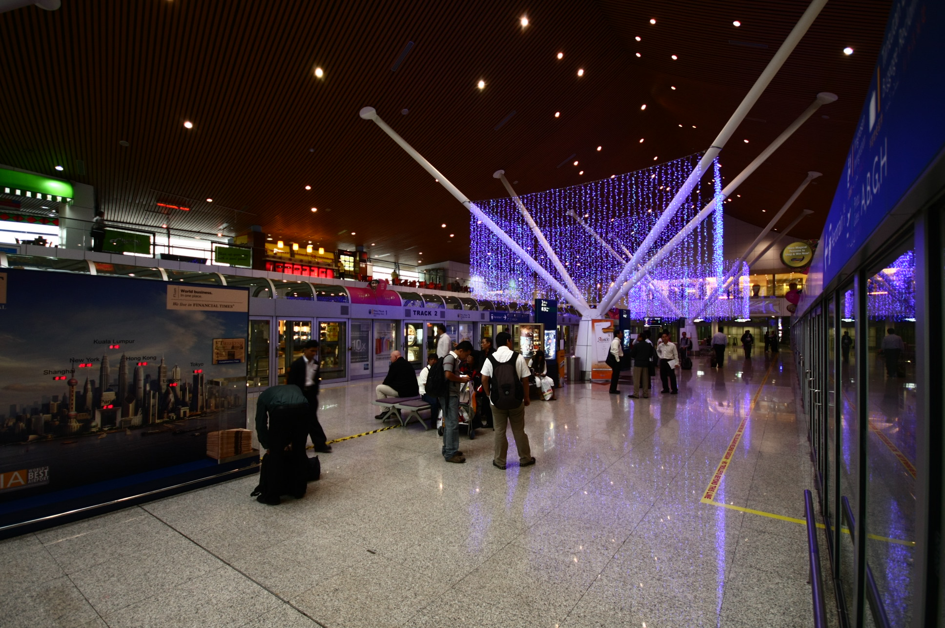 Satellite building hall near Aerotrain.